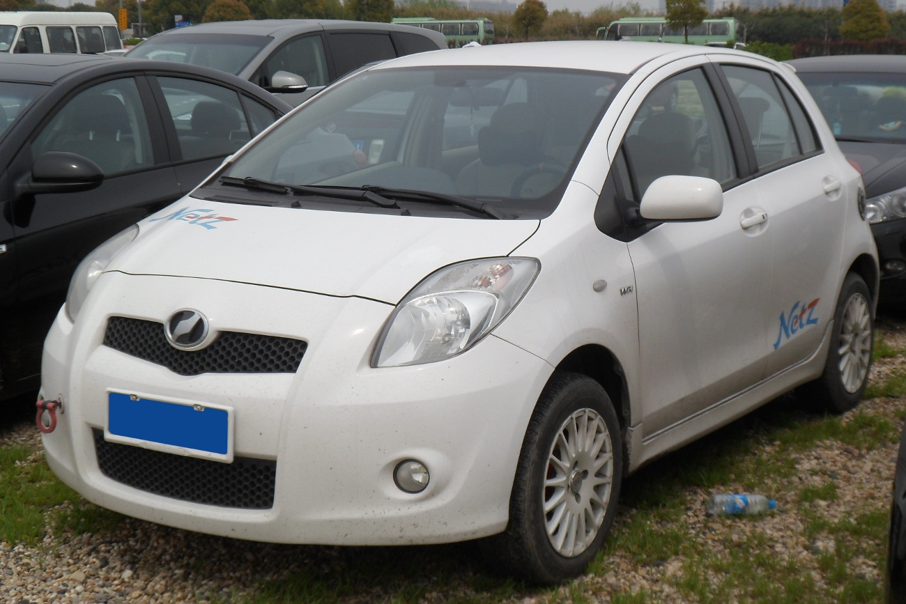 Toyota Yaris XP90 photographed in Anting, Shanghai municipality, China.